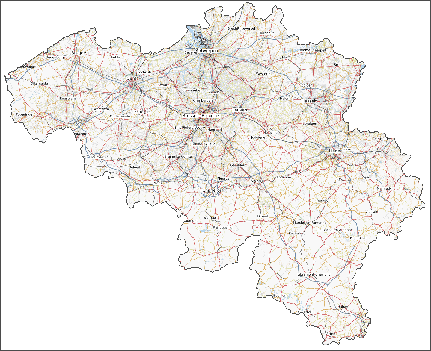 Road map of Belgium